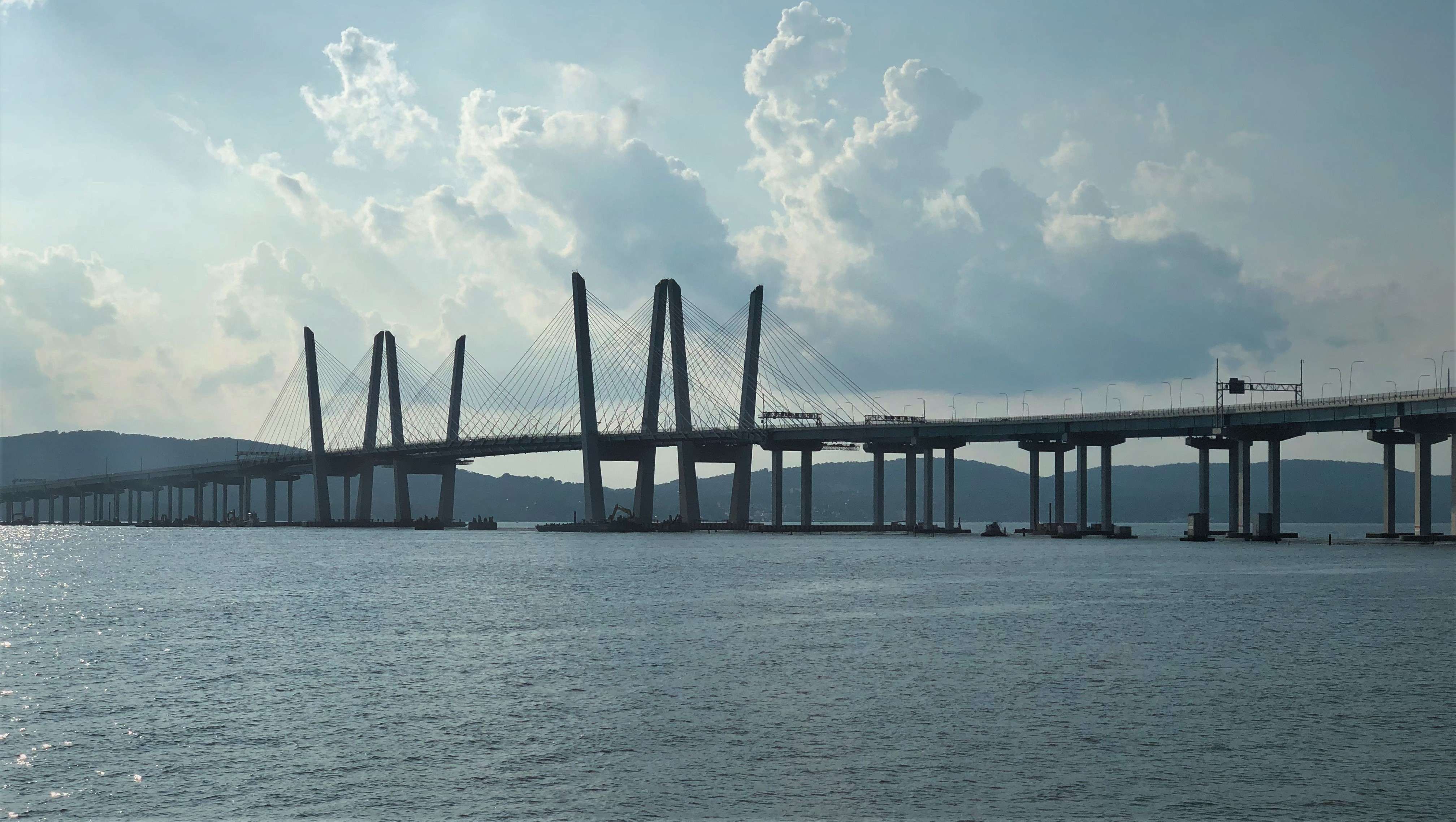 New (2017) Tappan Zee Bridge in 2019. The twin bridges carry Interstate highway 287 across the widest part of the Hudson River. The old bridge has been demolished. Photo taken from a Metro North train on the east side of the river in New York.